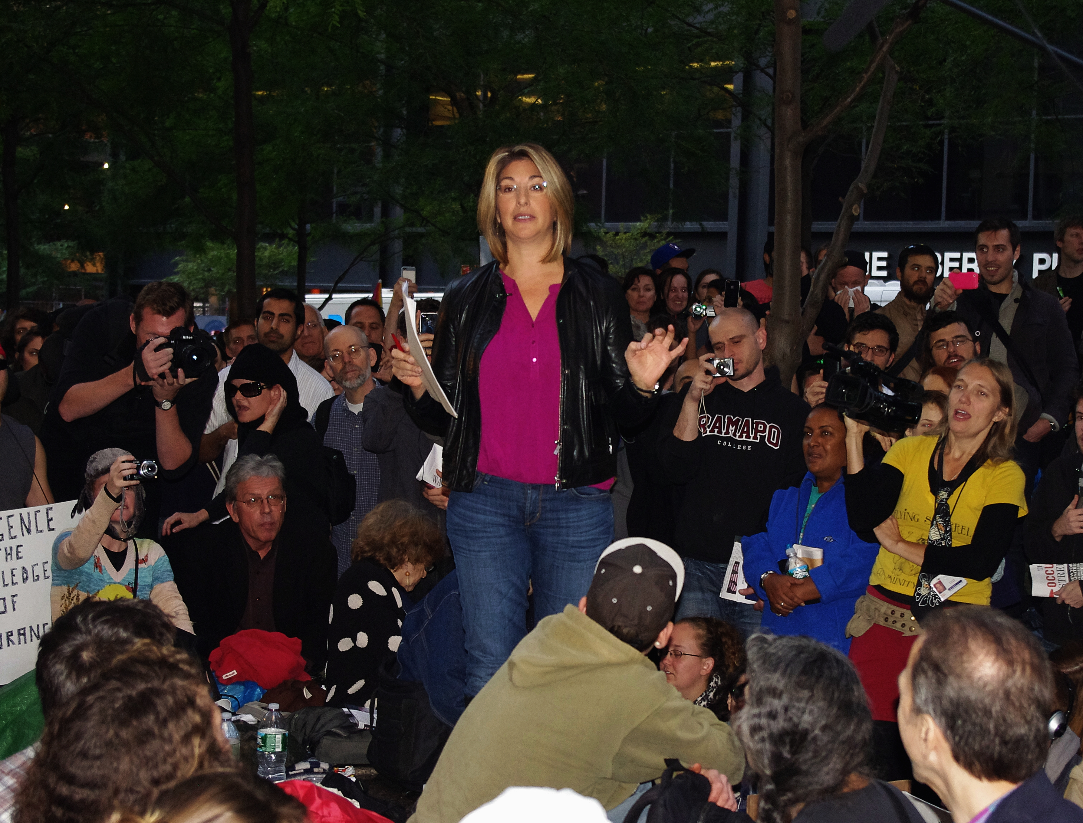 Naomi Klein on Thursday, Day 21, of Occupy Wall Street. Klein led an open forum at the event.